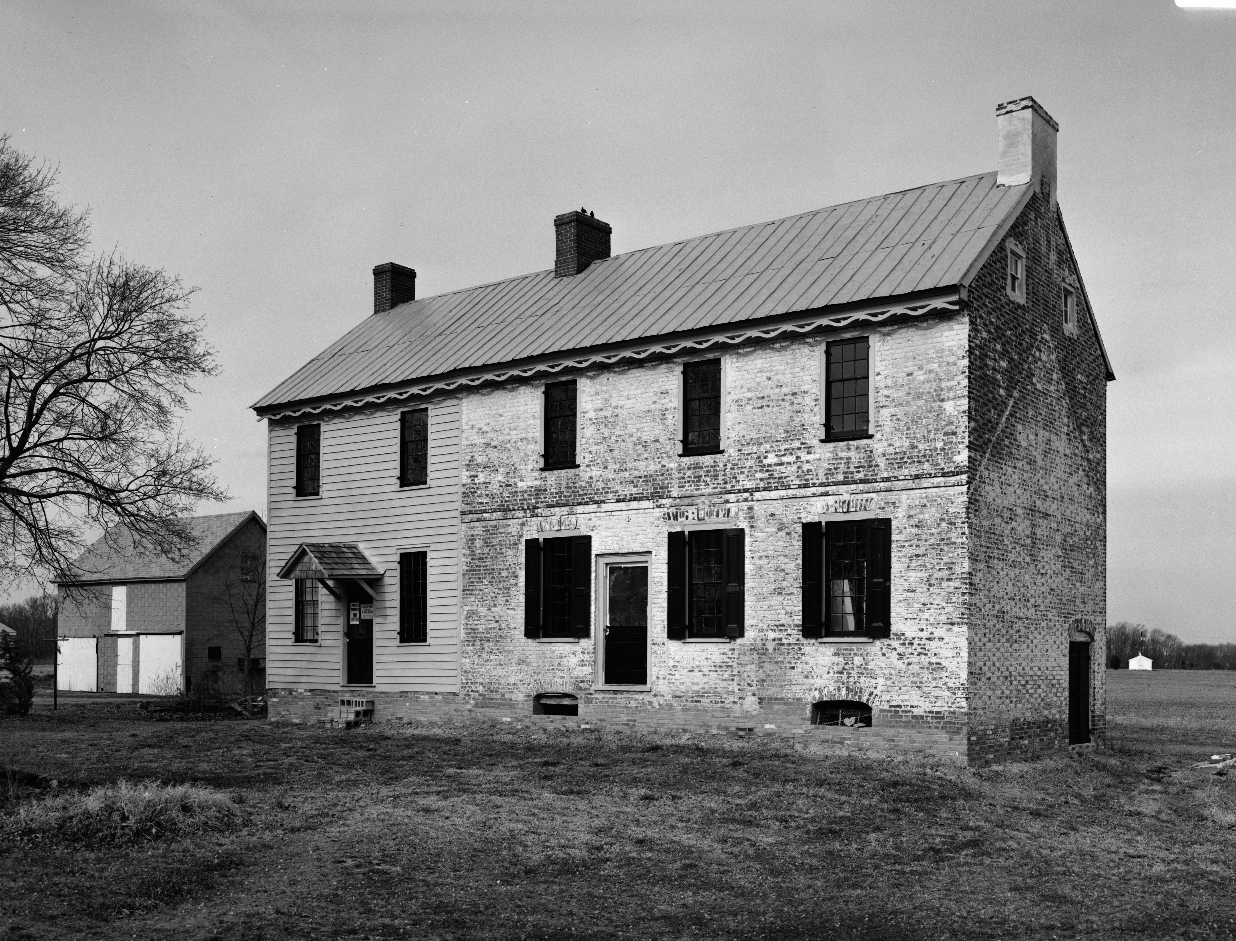 SOUTHWEST FRONT FROM SOUTH - Matthew Lowber House, North Main Street, Magnolia, Kent County, DE